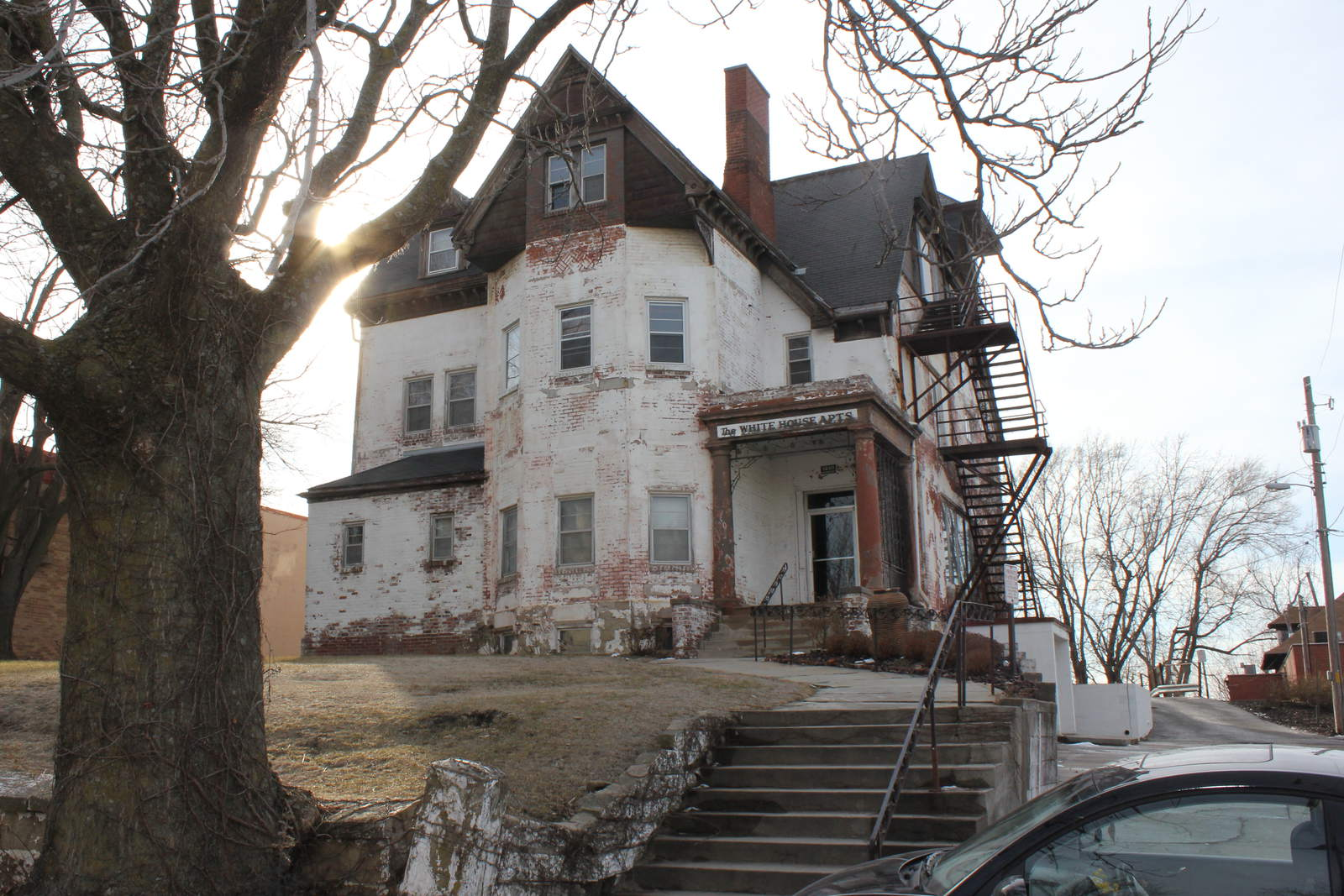 The Bishop George Worthington Residence at 1240 South 10th Street, built in 1886, is a large, Victorian style mansion in Omaha's original Gold Coast district.